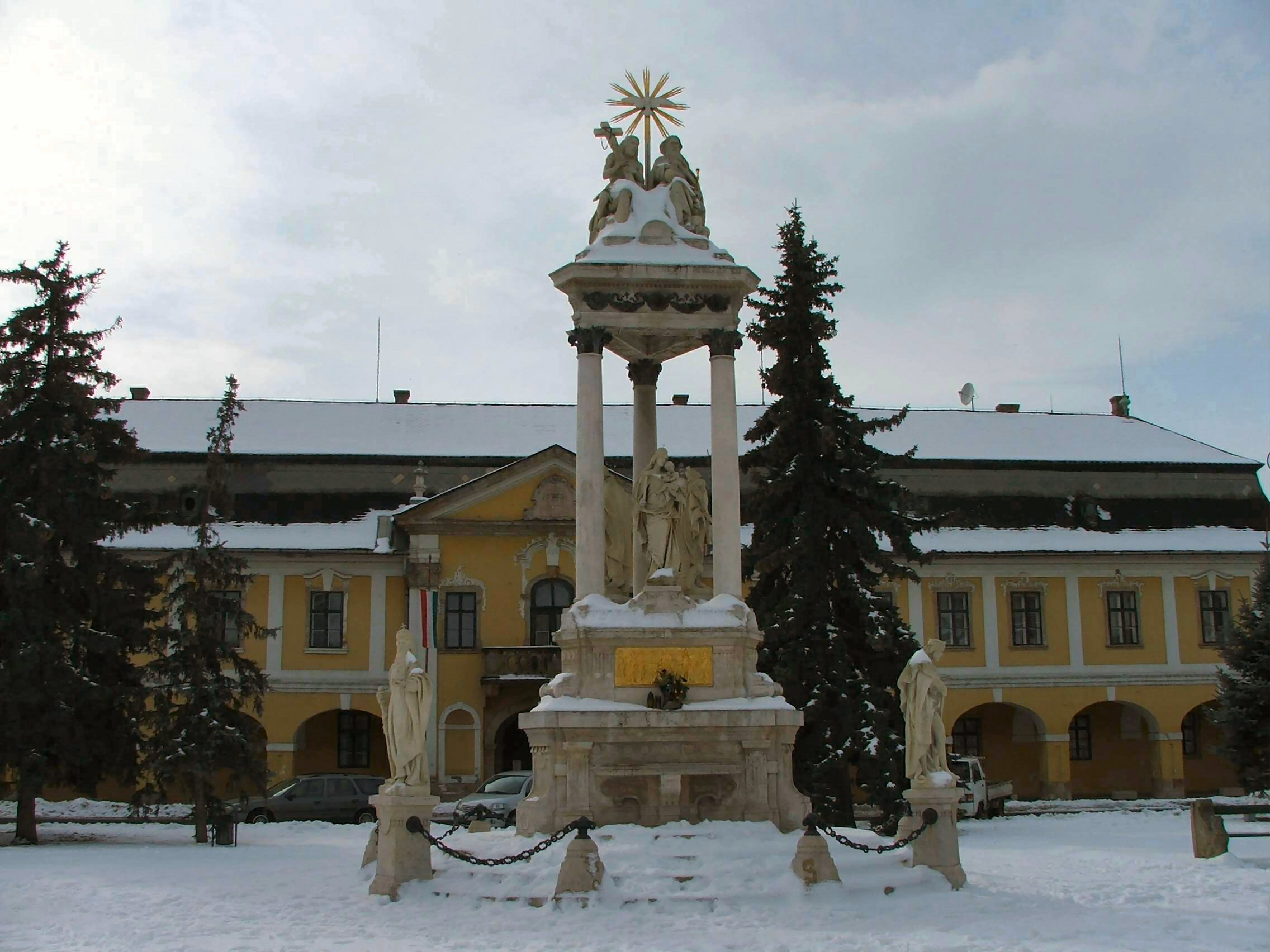 Trinity Column and Town Hall in Széchenyi square, Esztergom